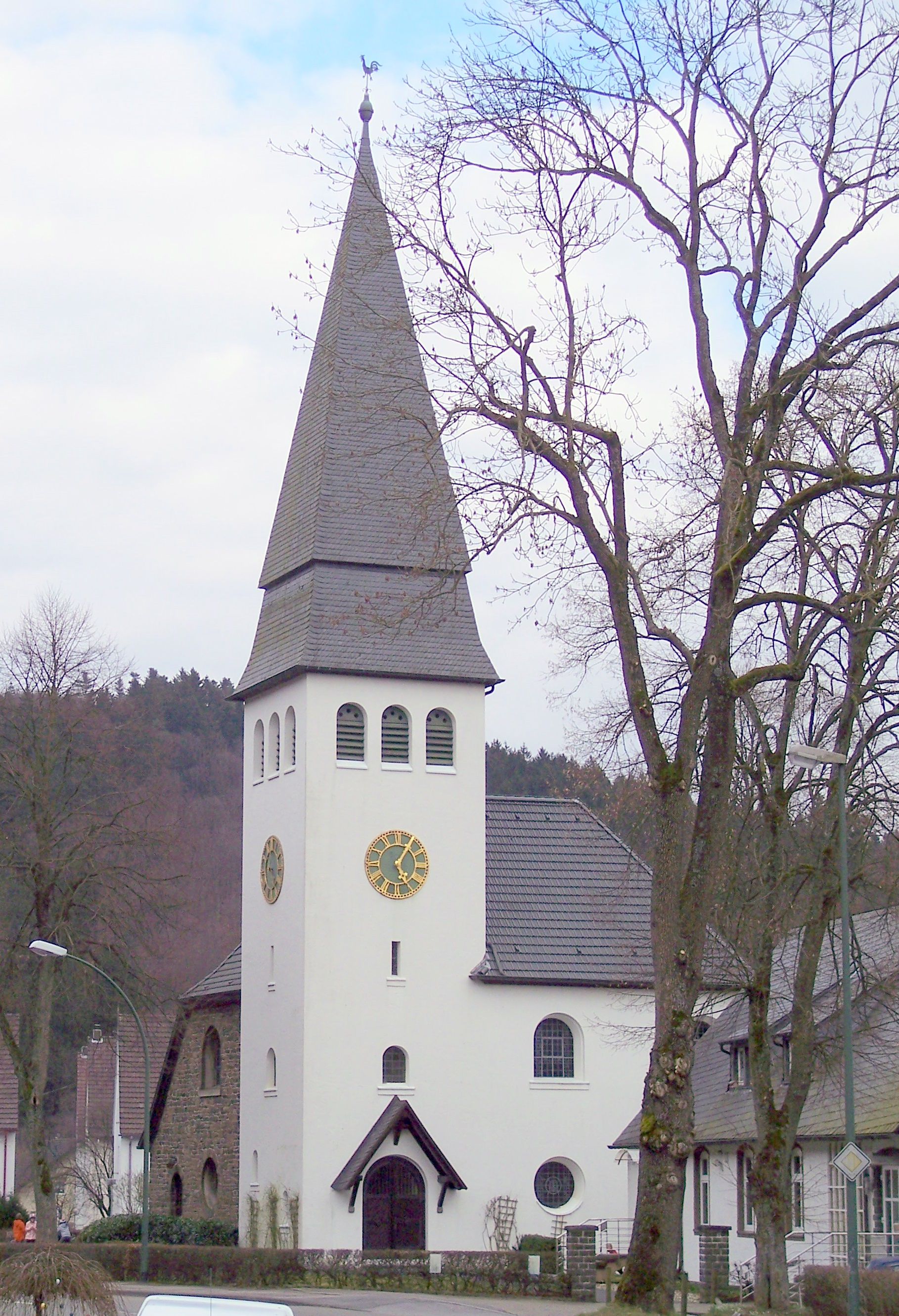 Lüdenscheid-Brüninghausen, protestant church, view from south